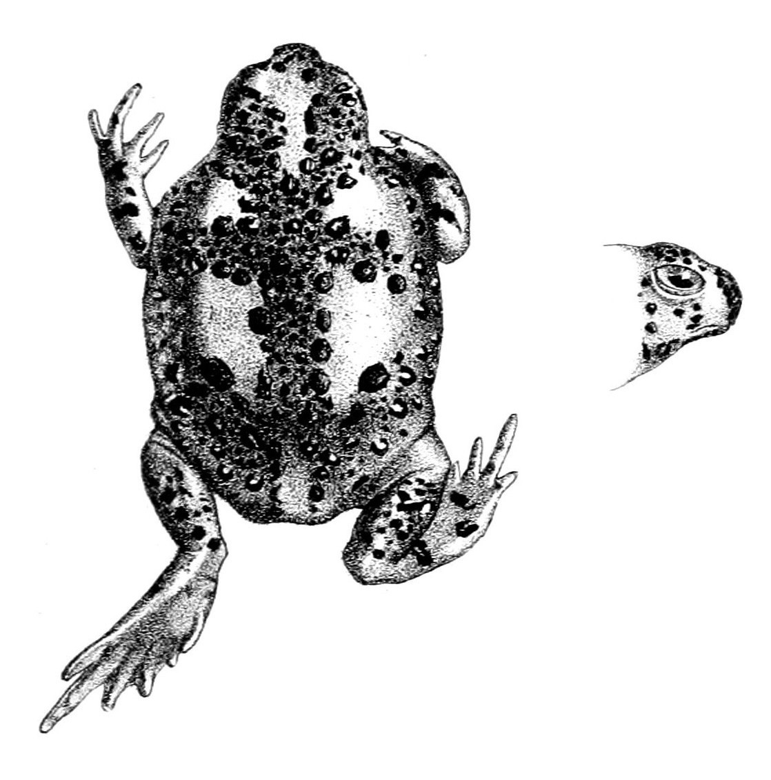 Notaden bennettii